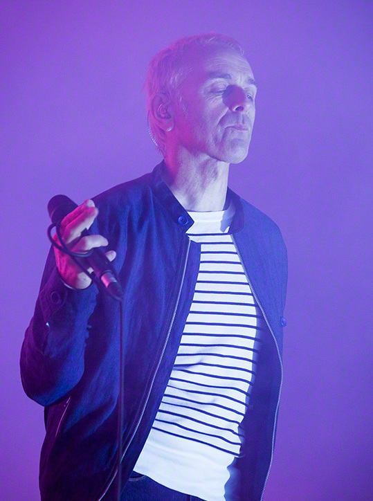 Underworld performs at Quart Festival in Kristiansand on 29. June 2016. Lineup:Karl Hyde (vocal)Darren Price (keyboard)